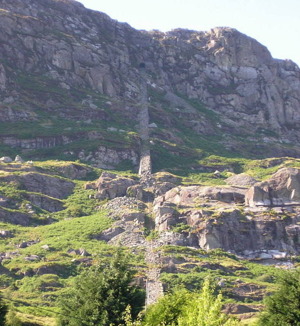 Wrysgan quarry incline. At the head of the incline is a short tunnel leading into the quarry. Same as 23134 but looking directly up the incline.